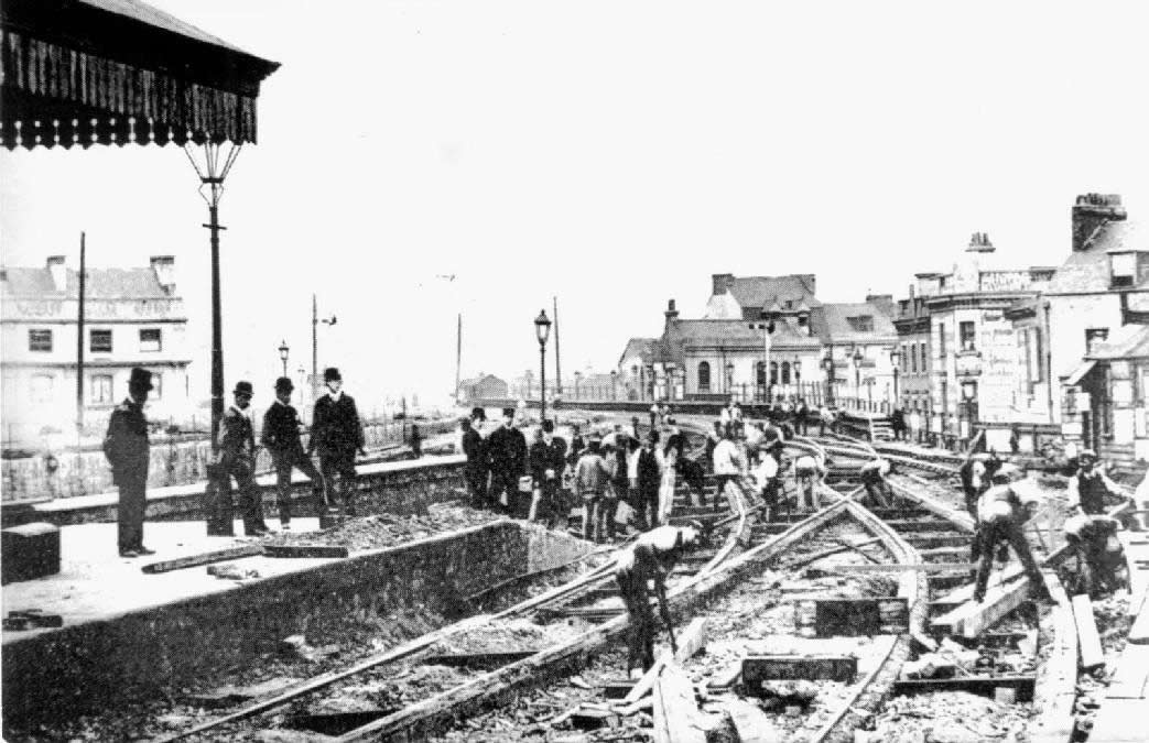 Work to convert the gauge from 7ft 0.25in to 4ft 8.5in at Plymouth Millbay railway station.